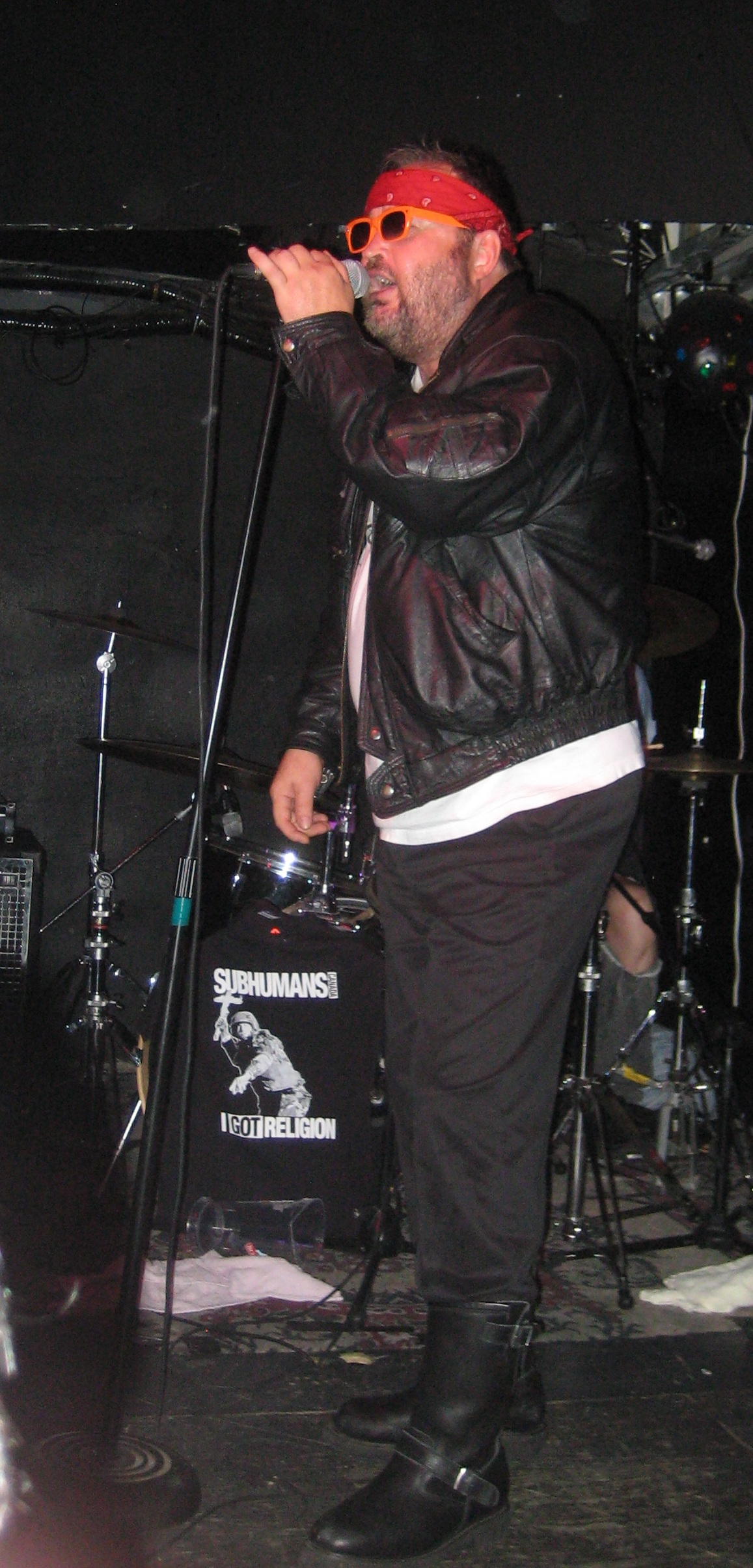 Brian Roy Goble singing for the Subhumans in Montreal, September 2010.